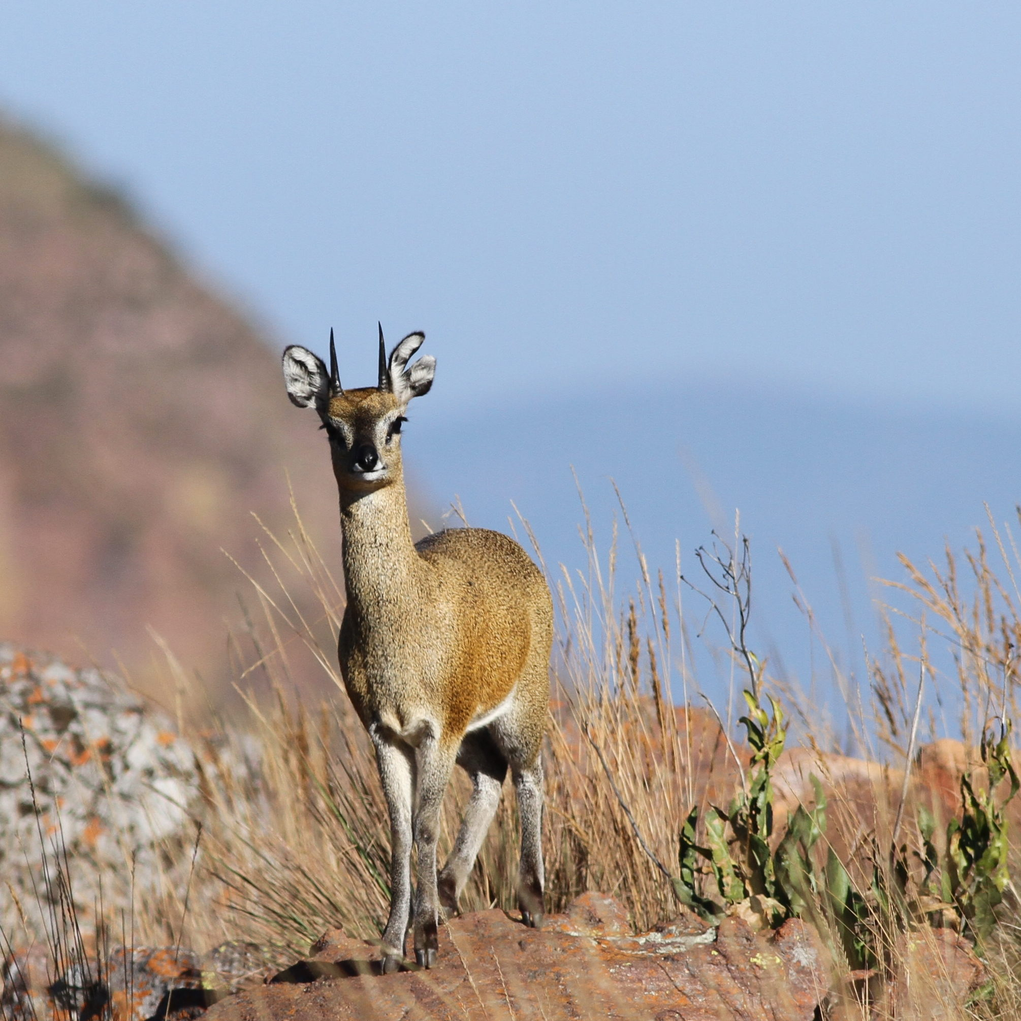 Klipspringer: a study -- Oreotragus oreotragus, on the rocks of Marakele National Park, South Africa